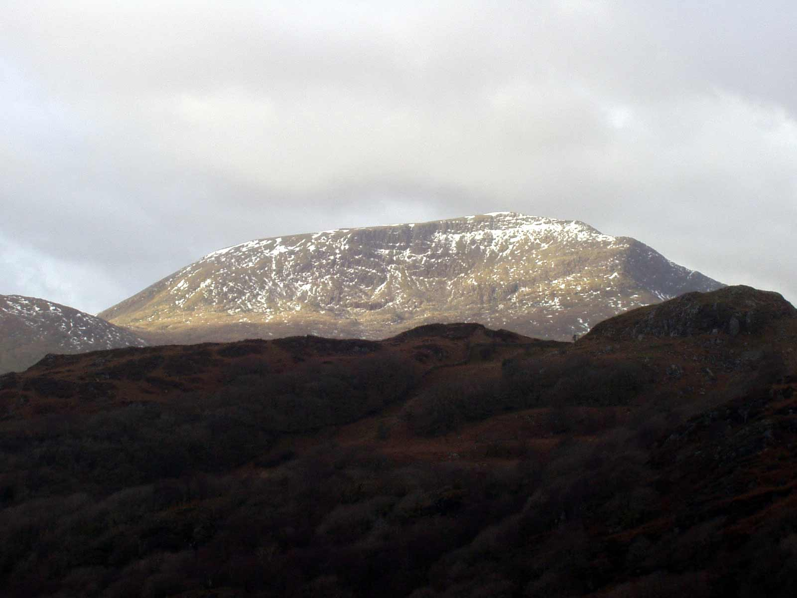 Moel Hebog, seen from the south. Taken on the 28th of December 2004 by Stemonitis